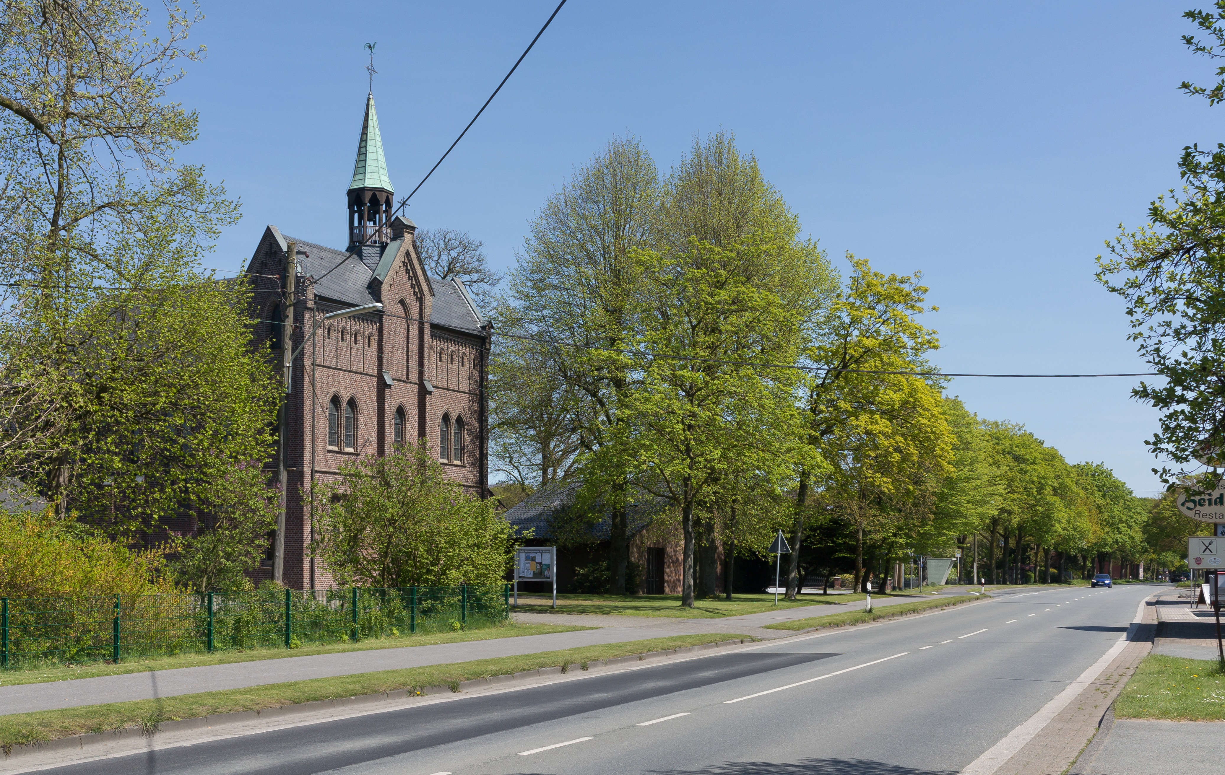 Bönninghardt, catholic church Sankt Vincenz This is a photograph of an architectural monument.